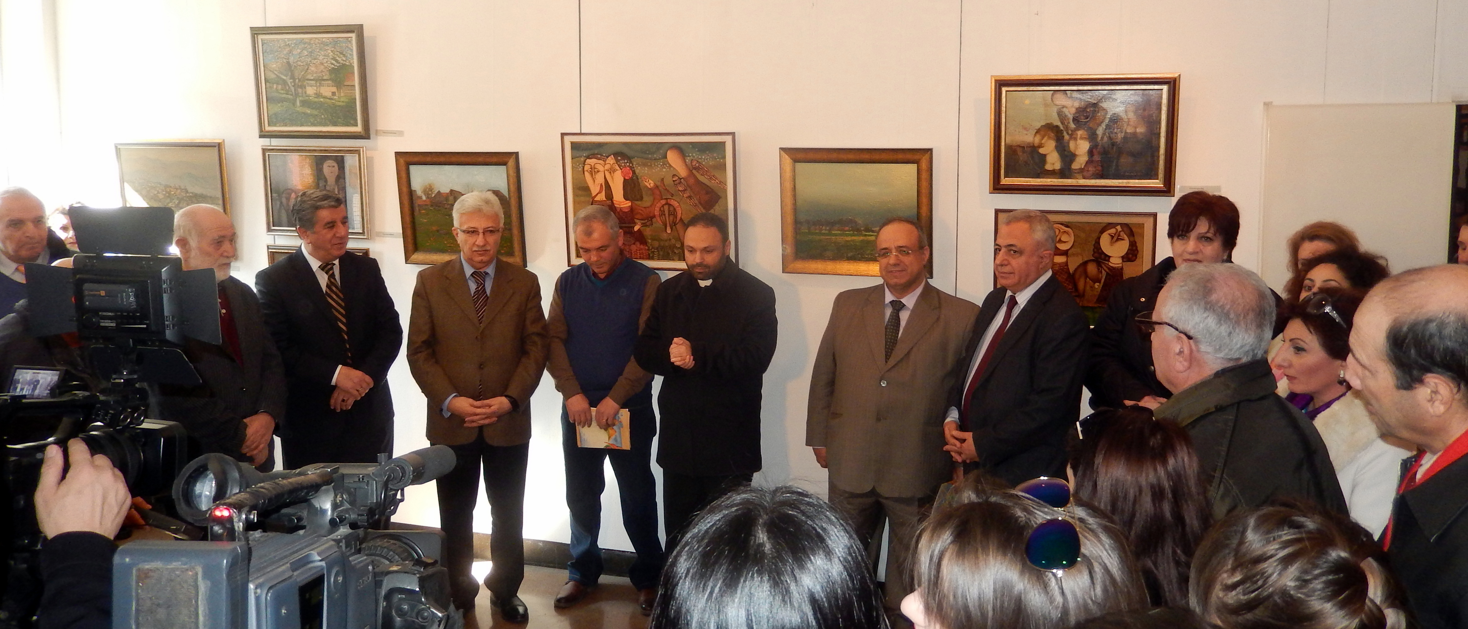 Armen Vahramyan exhibition, opening ceremony